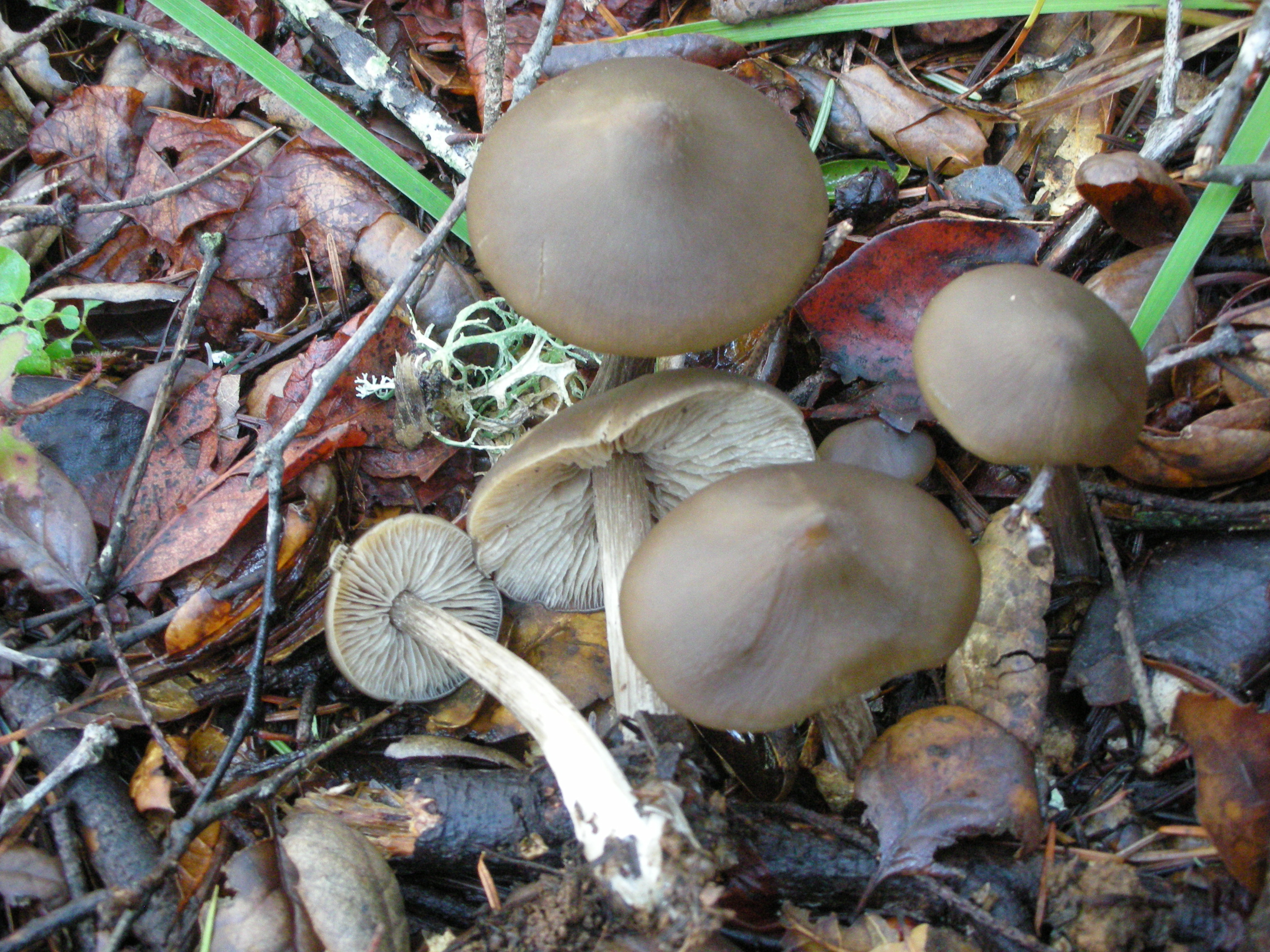 Nolanea pseudostrictia Largent Location: Bon Tempe Reservoir, Marin Co., California, USA Observation Notes: These had caps that were up to 5.3 cm across and there was an older specimen that was even larger. the habitat was live oak and some Doug. fir. Some appeared to be adhering to fir needle debris but oak leaves are apparent in the photos.The pink angular spores were about 9.0 X 7.0 microns with a large hilar appendage. the lamella edge did seem to have clavate cheilocystidia. (I’m not yet sure how to interpret what I see in micro shots). The main problem with a N. hirtipes id is that I couldn’t detect any strong odor from them. For more information about this, see the observation page at Mushroom Observer.